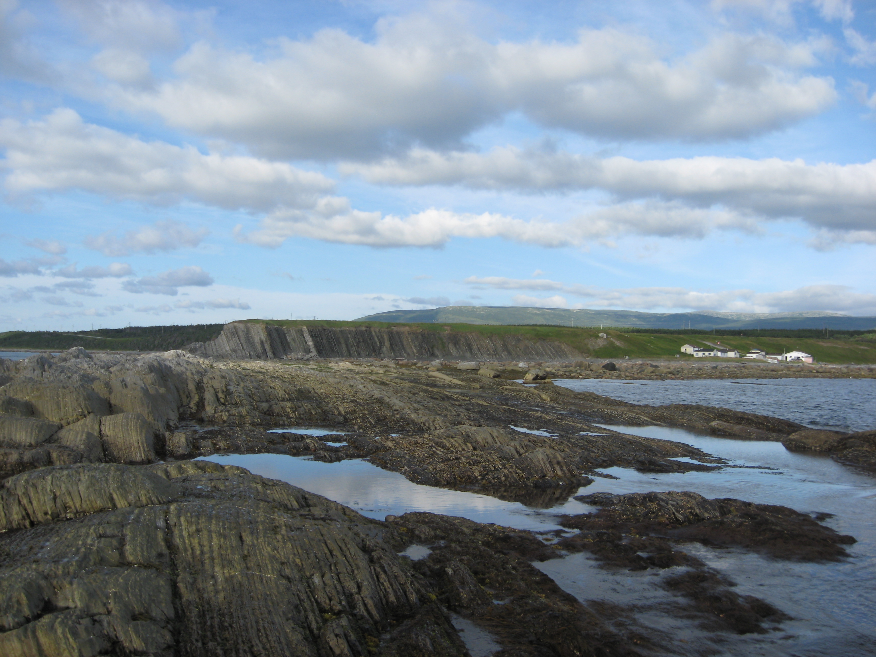 Photo of Green Point, Newfoundland. Taken at low tide.